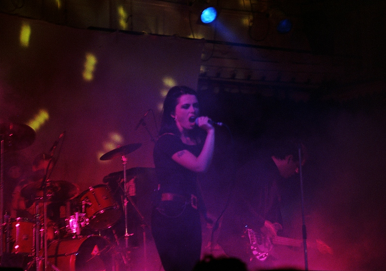 Curve live at Paradiso, Amsterdam (1992). The vocalist Toni Halliday in center and Dean Garcia playing the bass guitar on the right.